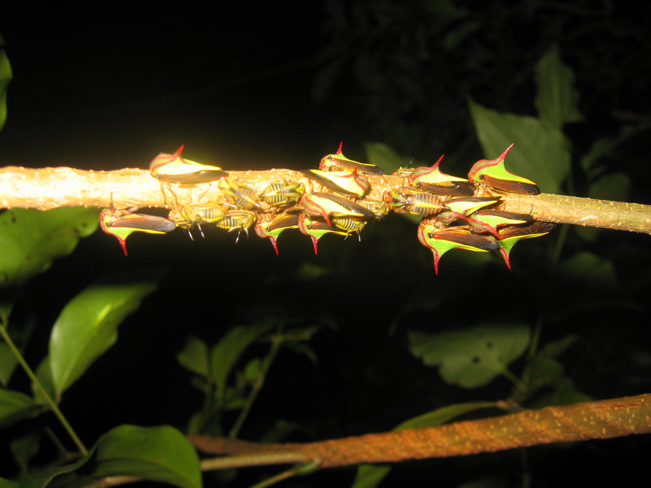 Image of a treehopper Membracidae, in Monteverde, Costa Rica